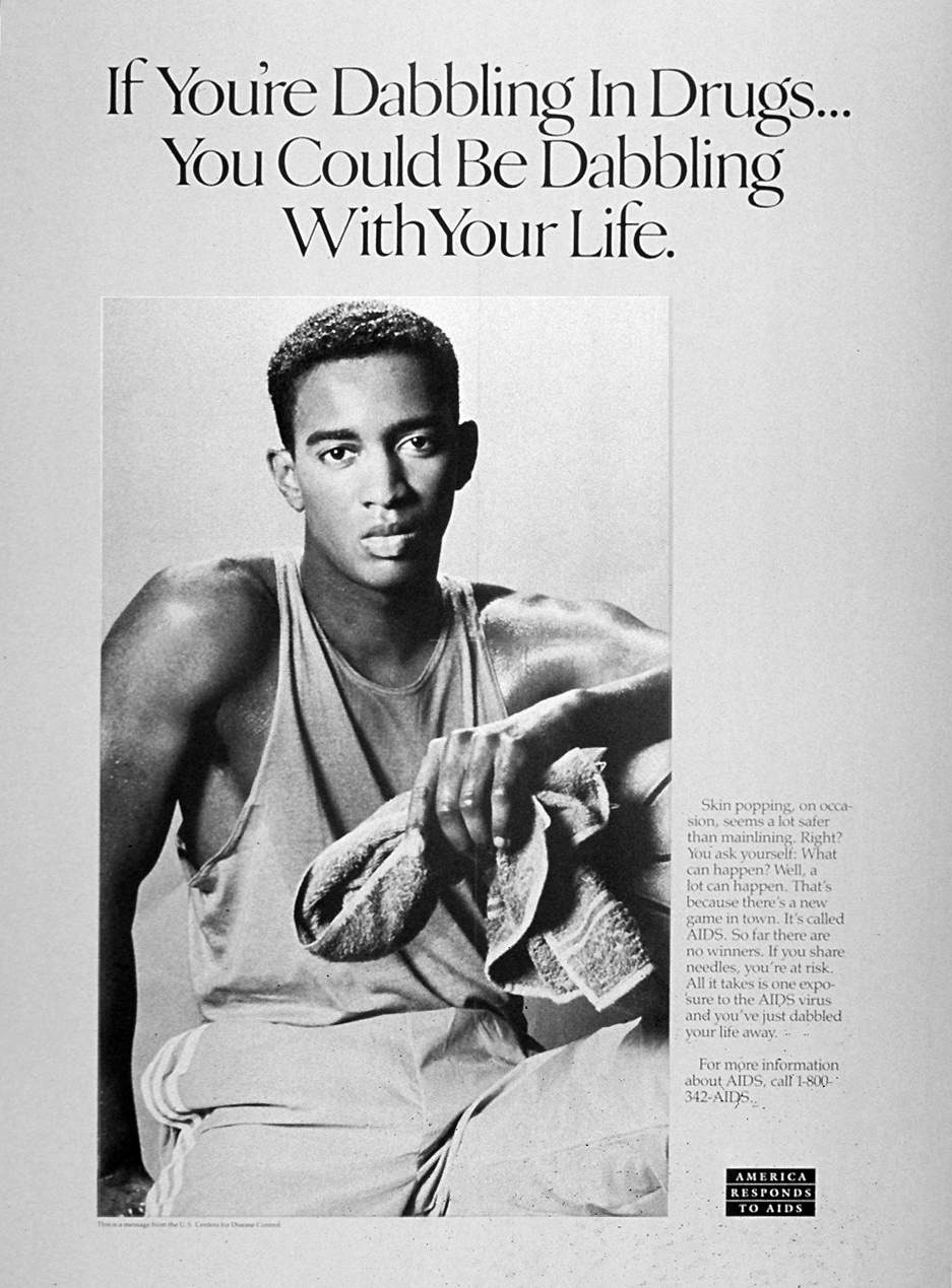 The attractive, athletic young man in the photograph to the left was not the typical image of someone with AIDS in the late 1980s. While the viewer may anticipate a message about sports or some other aspect of youth culture, the accompanying text in this poster provides a statement about the threat of AIDS associated with drug use. This type of image helped challenge prevailing stereotypes of drug users and at-risk populations for AIDS.